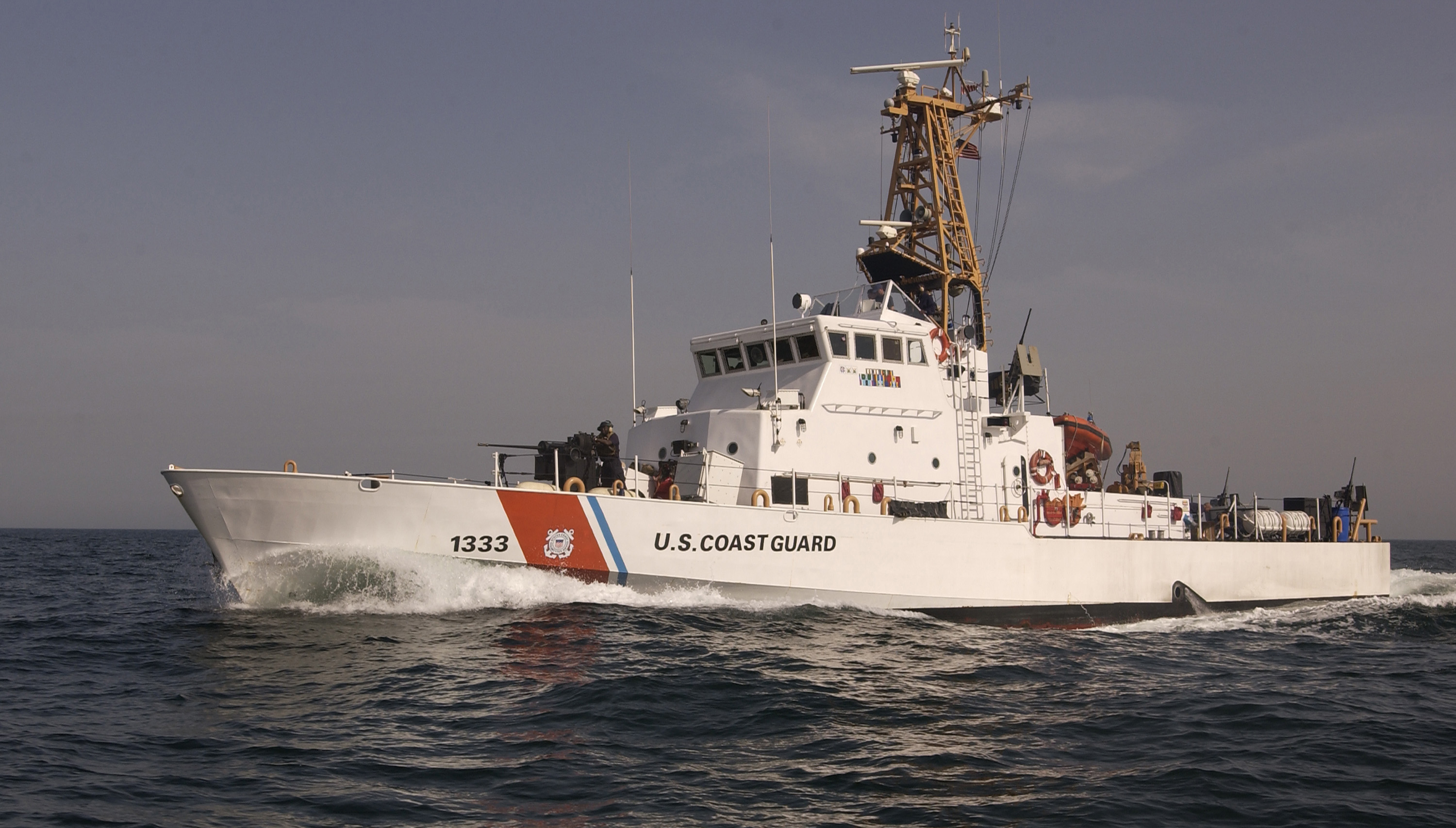 The U.S. Coast Guard Cutter Adak, a 110 foot patrol boat, homeported in Highlands, NJ., patrols the North Arabian Sea off the Coast of Iraq March 06, 2003. The Adak is on one of four 110 foot Coast Guard patrol boats in the Persian Gulf in support of Operation Iraqi Freedom.